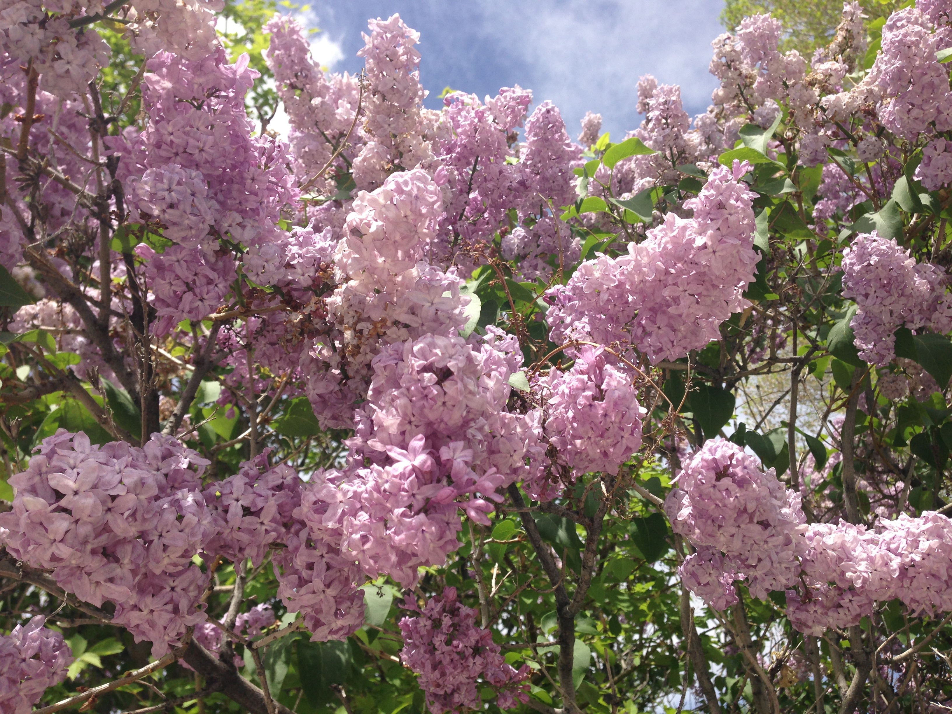 Lilac in Elko, Nevada